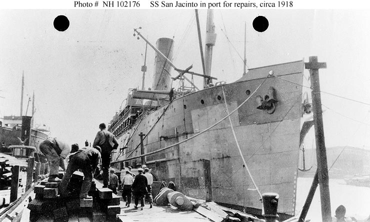 American passenger-cargo ship SS San Jacinto during World War I